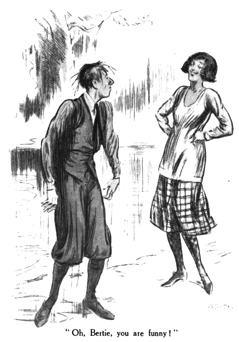 Strand Magazine illustration by A. Wallis Mills of the P. G. Wodehouse short story "Scoring off Jeeves"